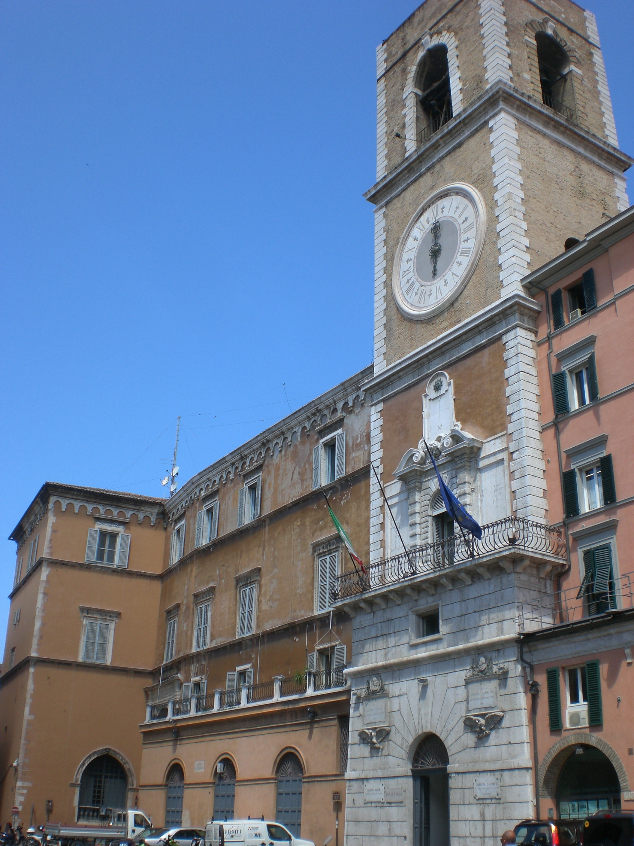 Ancona, Gouvernment Palace, 1484